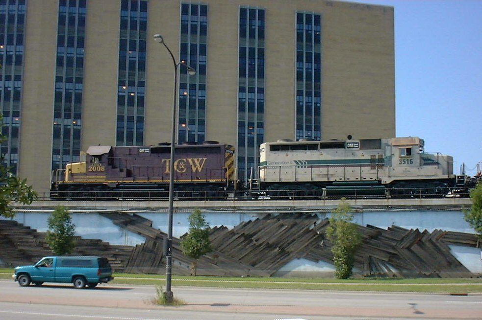 A Twin Cities and Western Railroad train waits in downtown Saint Paul, Minnesota. The lead locomotive is painted in TCW's color scheme; the second one is wearing a generic "Generation II Locomotives" color scheme.]